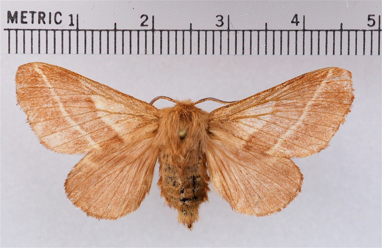 Eastern Tent Caterpillar Moth (Malacosoma americanum) Female